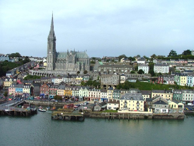 Cobh county Cork, Ireland. St. Coleman's Cathedral dominates the scene. The town of Cobh (known as Queenstown for some decades until 1922), is located on Great Island the largest of the three main islands in the vast Cork Harbour. For many years it was a calling point for the Transatlantic liners and on the quayside there is a memorial to the victims of the Lusitania, sunk by a German submarine in 1915. Another unhappy association is with the Titanic; Queenstown was her last port of call on her fateful maiden voyage.